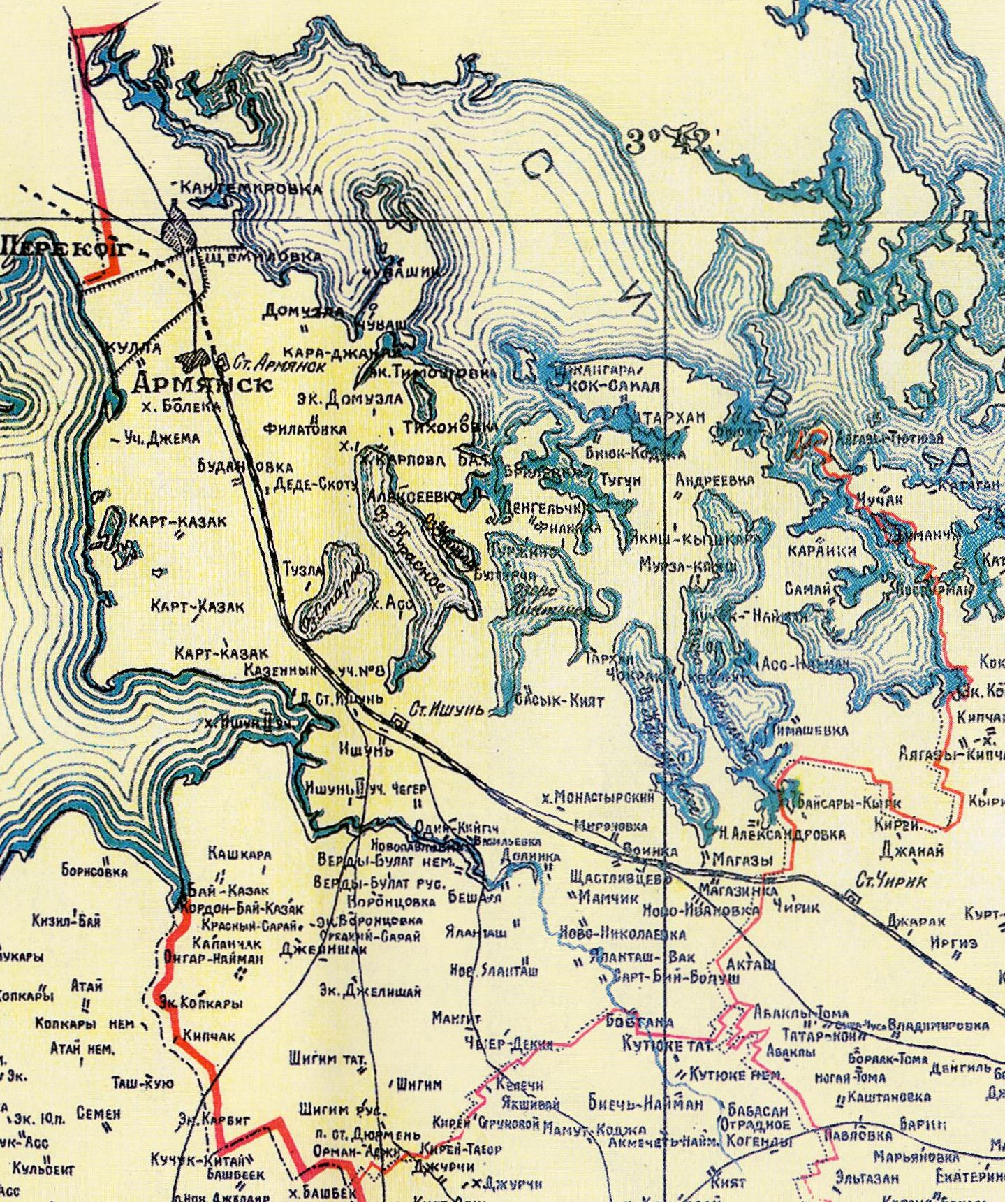 Ishun district map Crimean Statistical Office in 1922.